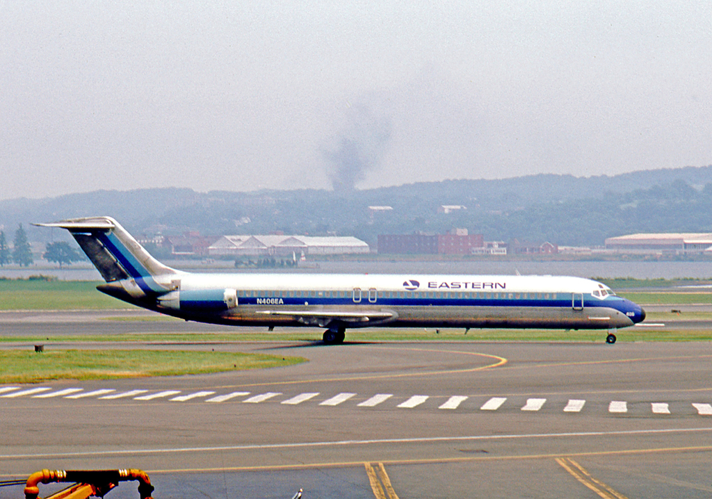 Douglas DC-9-51 N406EA of Eastern Air Lines at Washington DCA in 1982